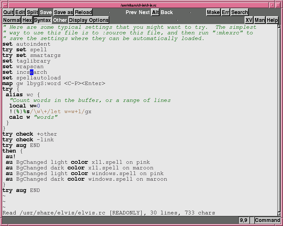 Screenshot of the Elvis text-editor which I made, showing its syntax highlighting. Elvis is distributed under the "Clarified Artistic License", which grants free distribution of modified versions of Elvis provided that the changes are also made freely available or public domain.